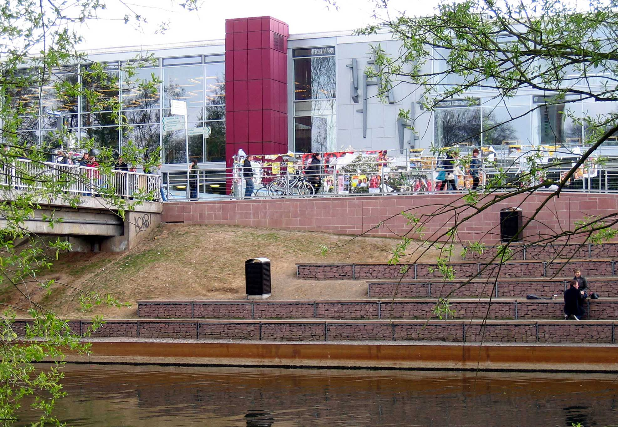 new built terraces at Lahn river in the town of Marburg/Germany